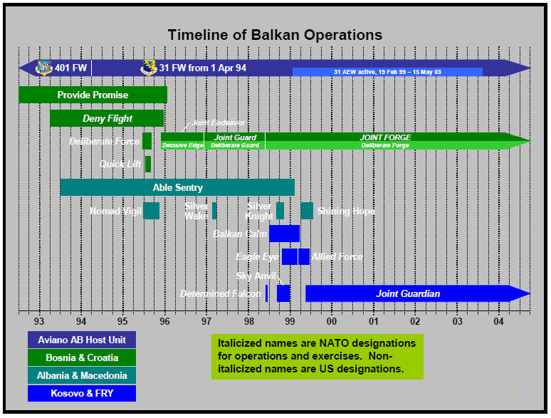 31st FW Balkan Operations Gnatt chart